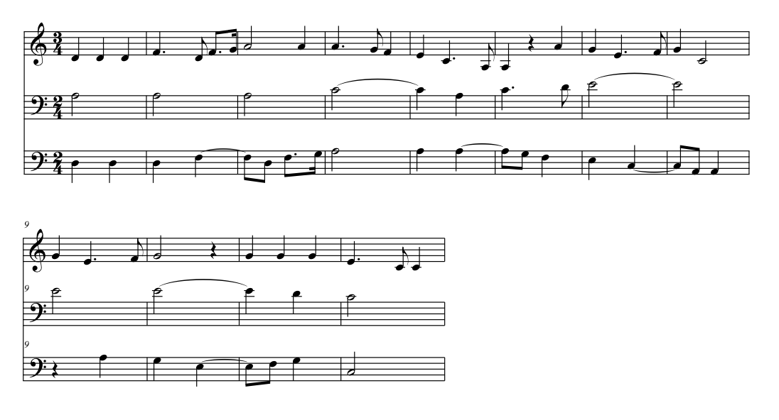 Prolation Canon, Agnus Dei from the earlier of the two Missa l'homme armés by Josquin des Prez.